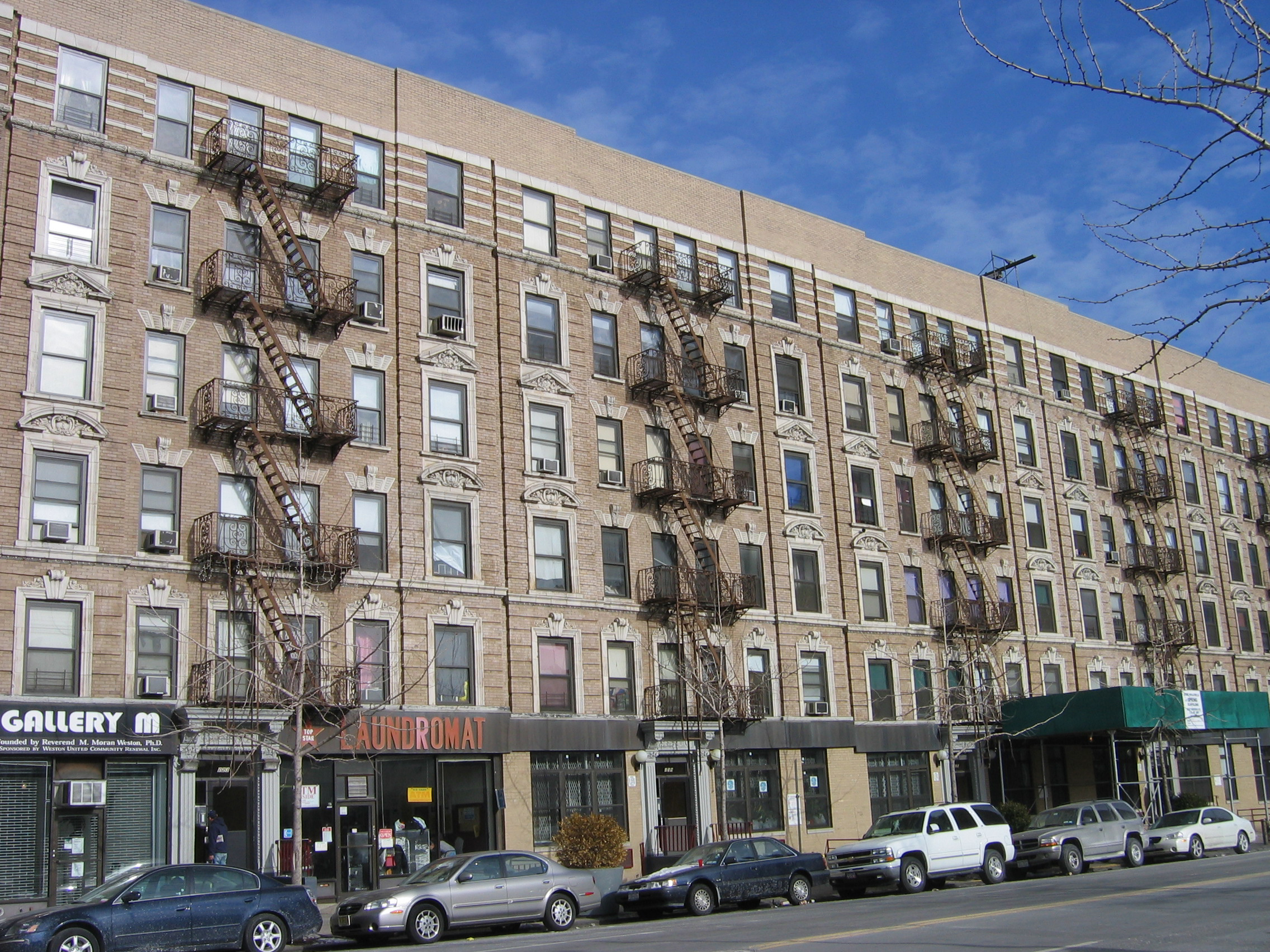 Buildings along West 135 Street in Harlem (New York City) between Adam Clayton Powell, Jr. Blvd. and Malcom X Blvd. (Lenox Avenue)